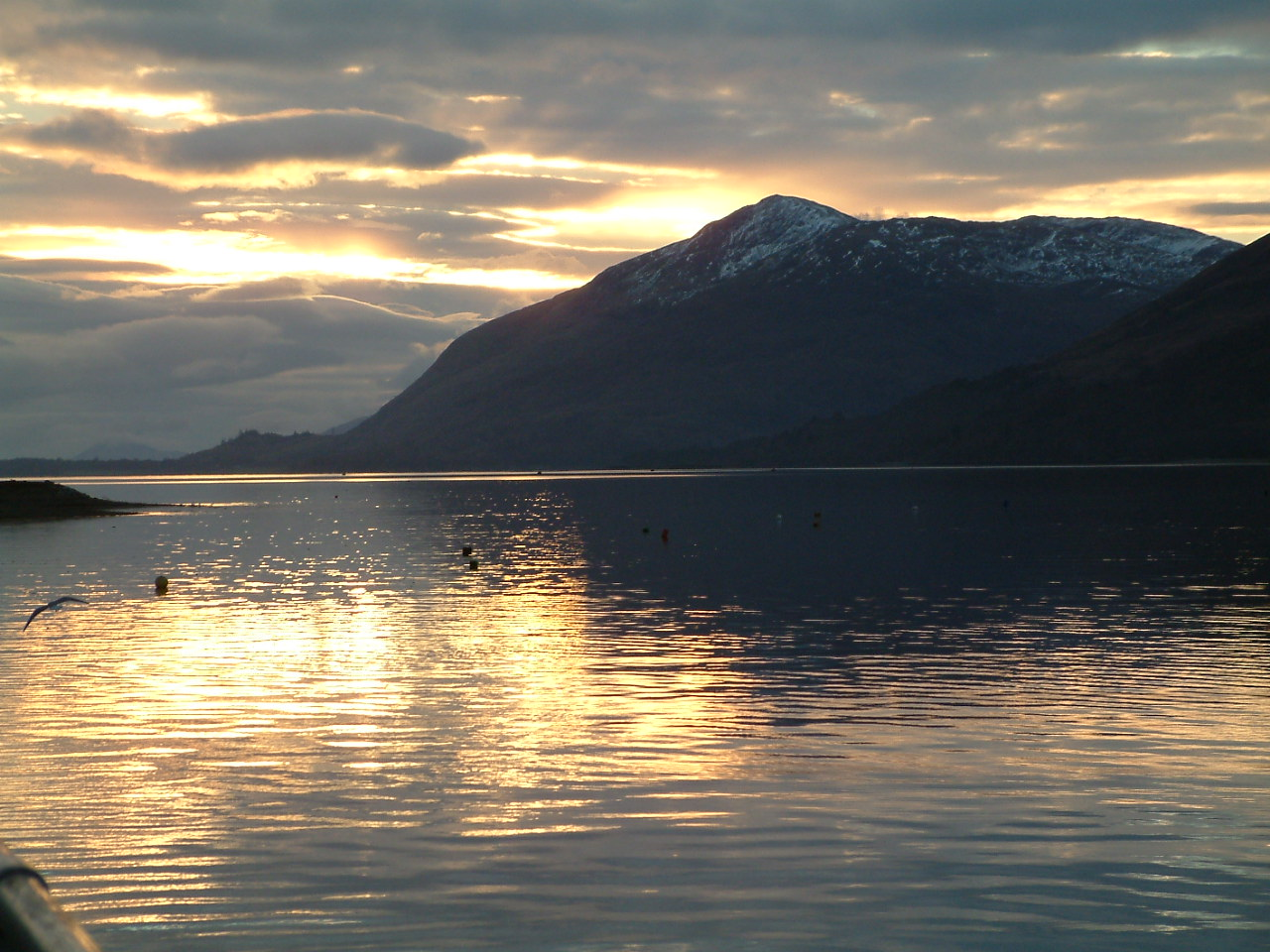 Loch Linnhe, Scotland